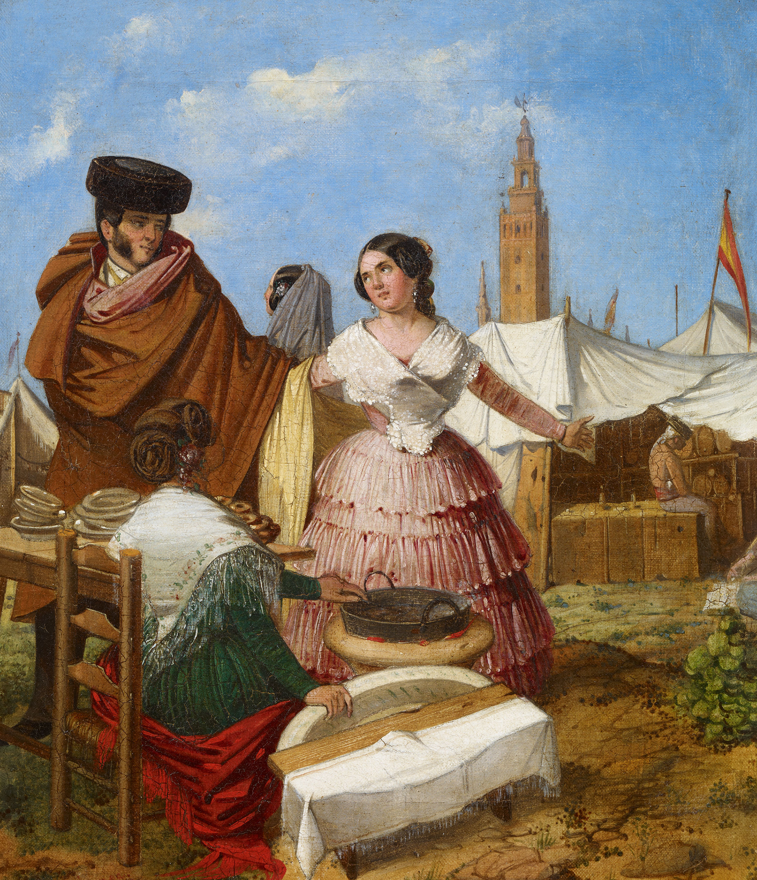 Courting at a Ring-Shaped Pastry Stall at the Seville Fair. Oil on canvas. 35 x 30 cm. Inv. CTB.1995.117 Carmen Thyssen Museum Native nameMuseo Carmen Thyssen MálagaLocationMalaga, (Spain)Coordinates36° 43′ 17″ N, 4° 25′ 22″ W Established2011Web page control : Q5043601 VIAF: 230371067 LCCN: no2012034269 OSM: 5583647 GND: 16335044-9 SUDOC: 163469776 WorldCat institution QS:P195,Q5043601